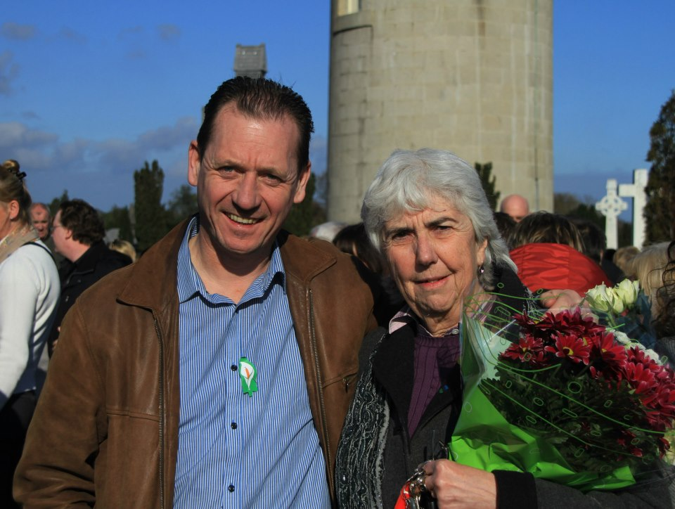 Maureen O'Sullivan (politician) in 2013